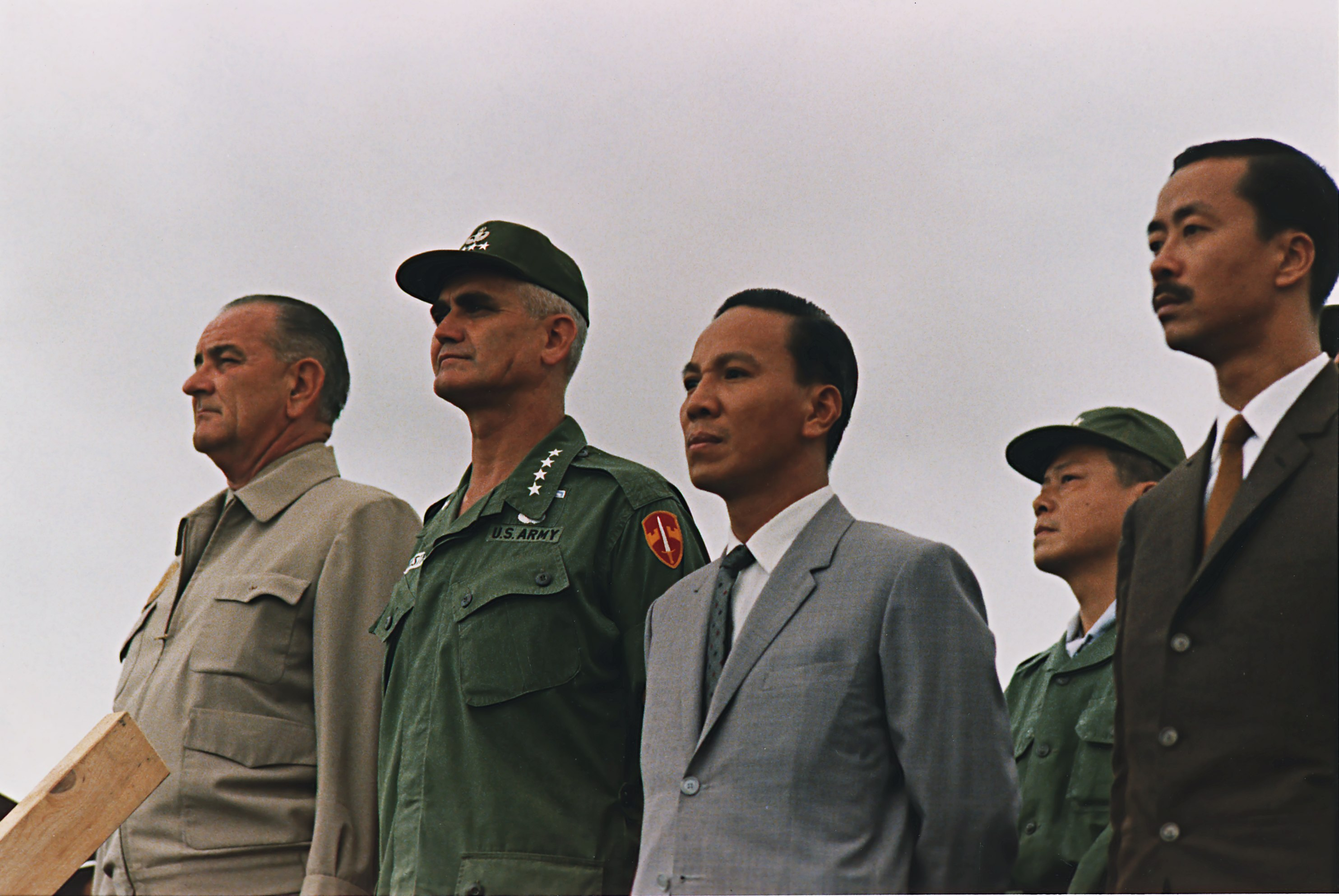 U.S. president Lyndon B. Johnson (left) at a visit in South Vietnam on October 26, 1966, with General William Westmoreland, Lieutenant General Nguyen Van Thieu, and Prime Minister Nguyen Cao Ky (South Vietnam).